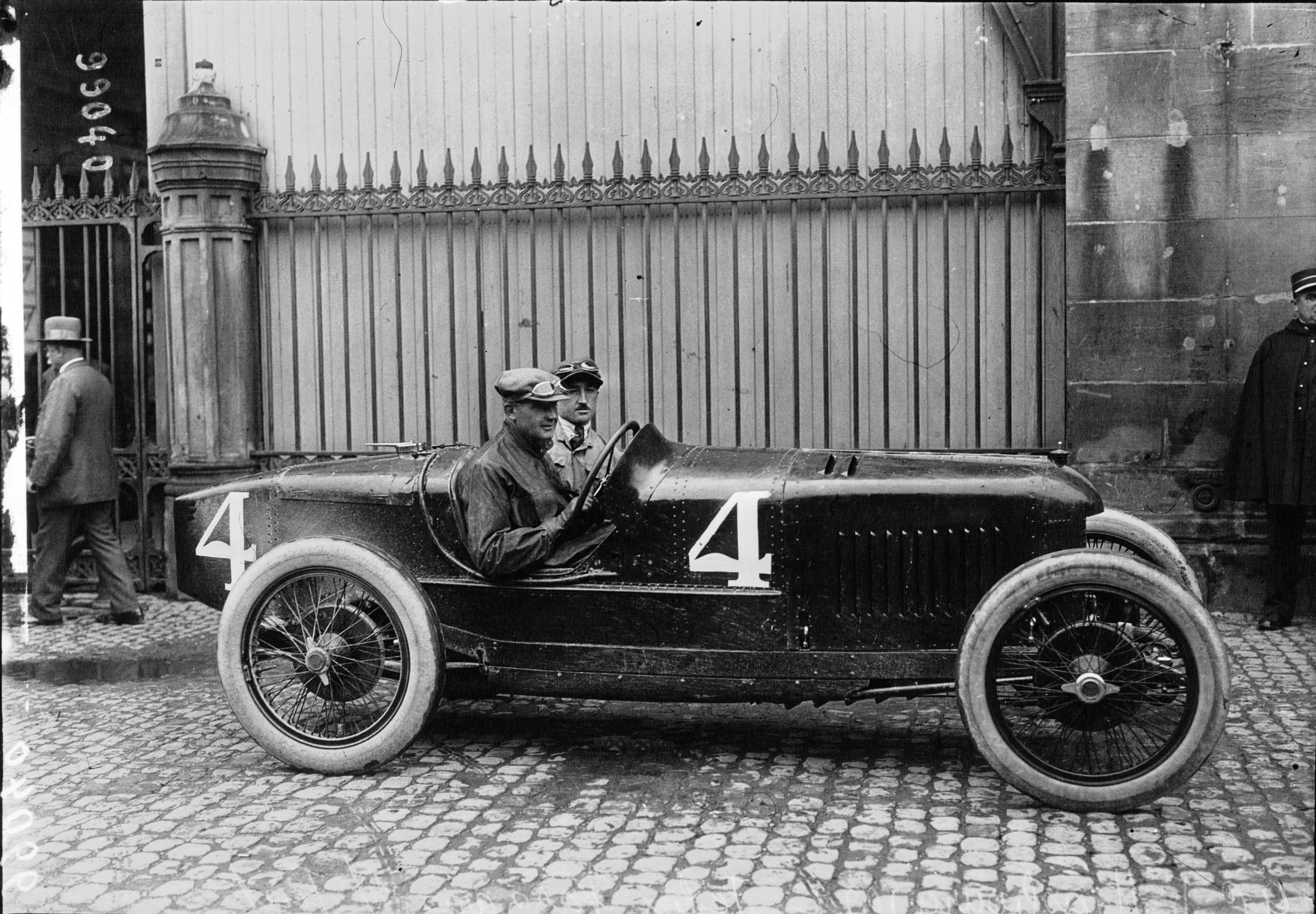 Felice Nazzaro at the 1922 French Grand Prix